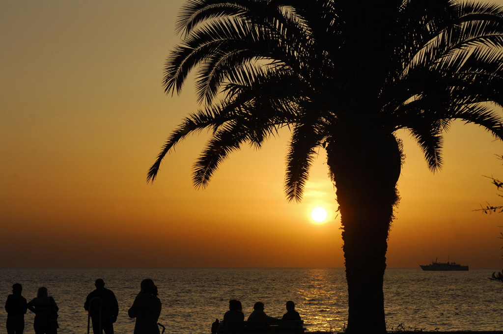 “On a beach in Sochi”. Walking along the embankment in Sochi duirng the sunset.